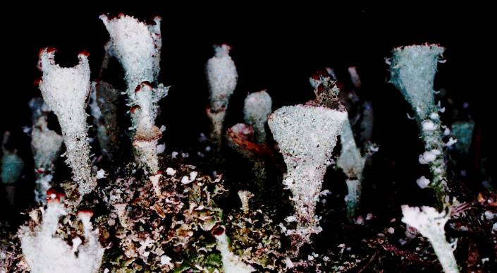 Cladonia grayi G. Merr. ex Sandst., 1929 Photographed in the field. Assumed to be Cladonia grayi which is the most prevalent chemical variant of a complex that includes: C. chlorophaea, C. cryptochlorophaea, and C. merochlorophaea. These specimens of Cladonia grayi were growing on soil along the southern portion of the Serpentine Trail (White Trail) at the Soldiers Delight Natural Environment Area, Owings Mills, Baltimore County, Maryland, USA (N 39o24.507', W 76o51.026').